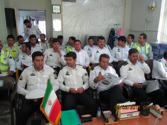 Police officers meeting about new Traffic Law.